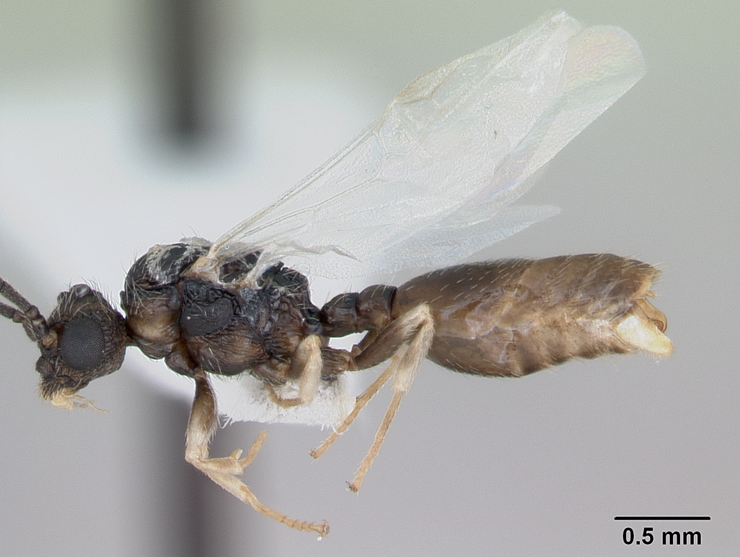 Profile view of ant Cephalotes maculatus specimen casent0173690.